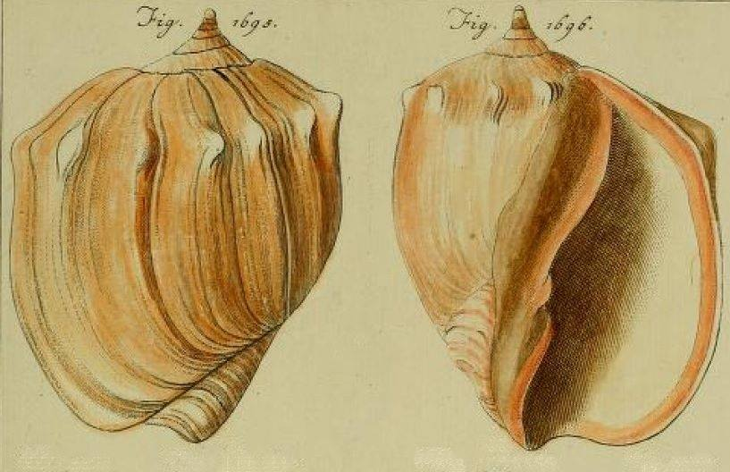 Drawings of the seashell Adelomelon brasiliana (Lamarck, 1811)[1]. From CHEMNITZ, JH., 1795. Neues Systematishes Conchylien-Cabinet. Nürnberg: Raspe.[2][3]